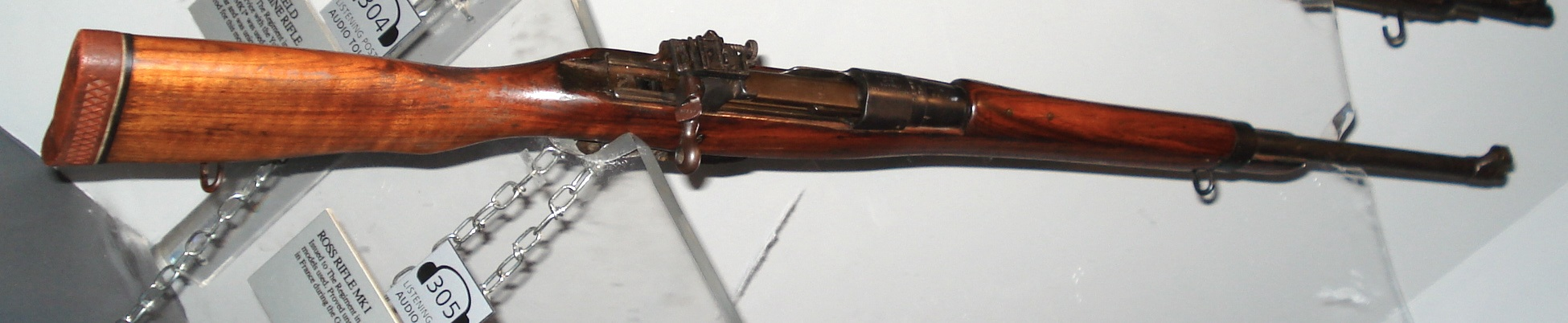 Canadian Ross Rifle, displayed at the Royal Canadian Regiment Military Museum in London, Ontario. The museum label states this is the Mk.1 version of the rifle, but the stamp on the rifle itself indicates that this is the M-10 version (i.e. Mk. 3). Photo taken on August 10, 2006. Source: Photo by me, User:Balcer.